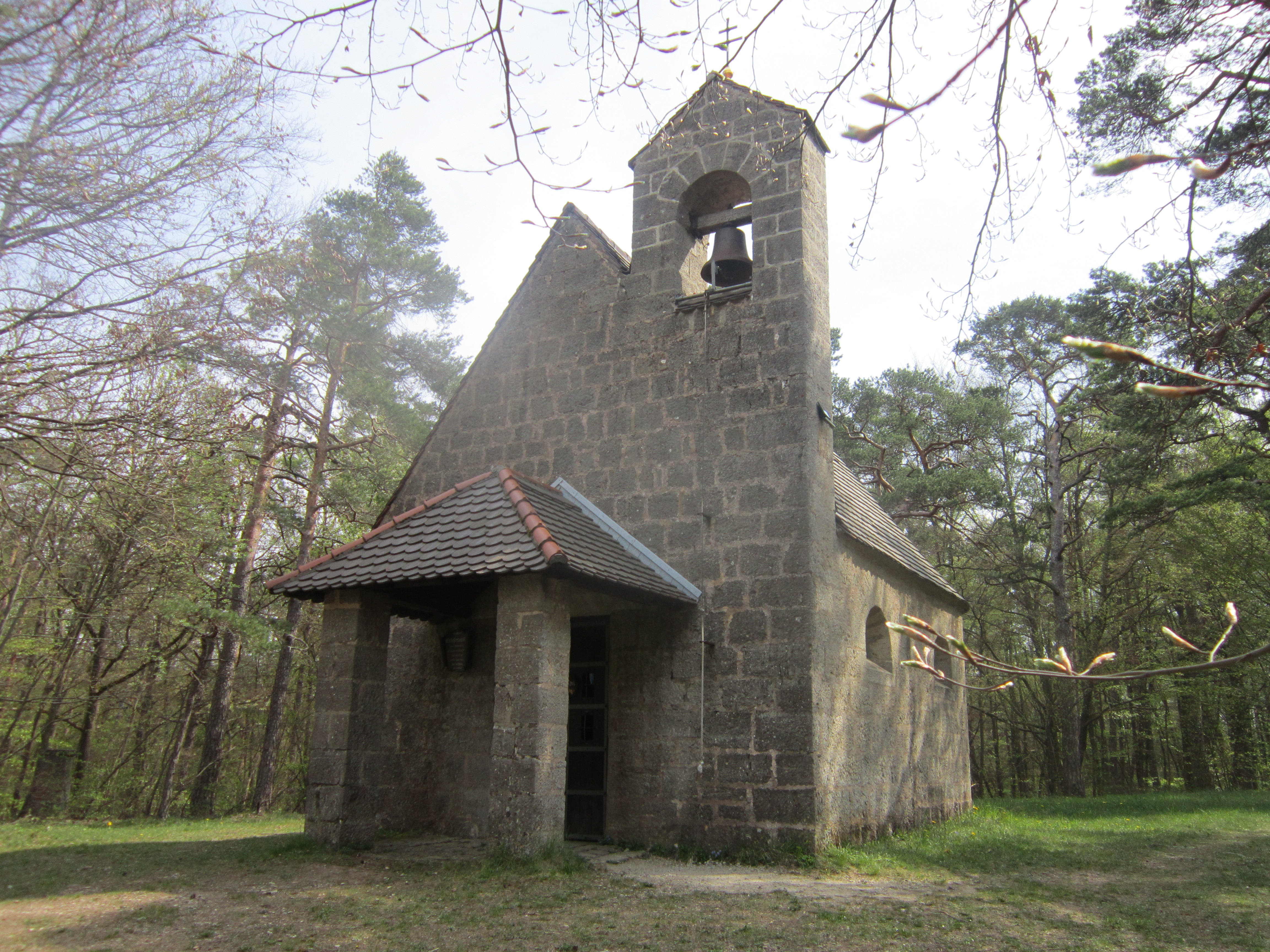 The "Kohlenbergkapelle" in the German town of Fuchsstadt in Lower Franconia (Bavaria).